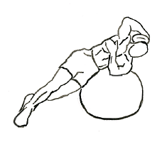 an exercise of abs